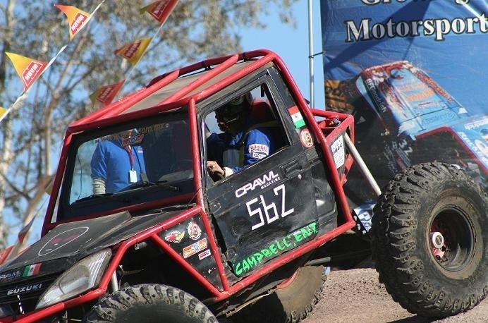 Jose Manuel Ponce rock crawling at the UROC Supercrawl VI Extreme Rock Crawling World Championship.